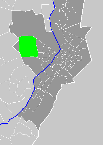 Locators of Venlo